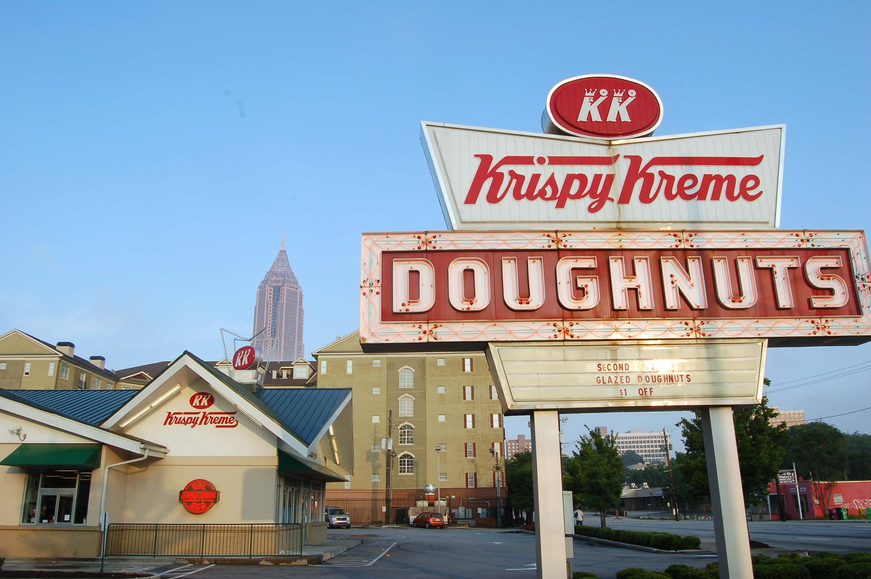 A Krispy Kreme store in Atlanta, Georgia with the Hot Doughnuts sign on.